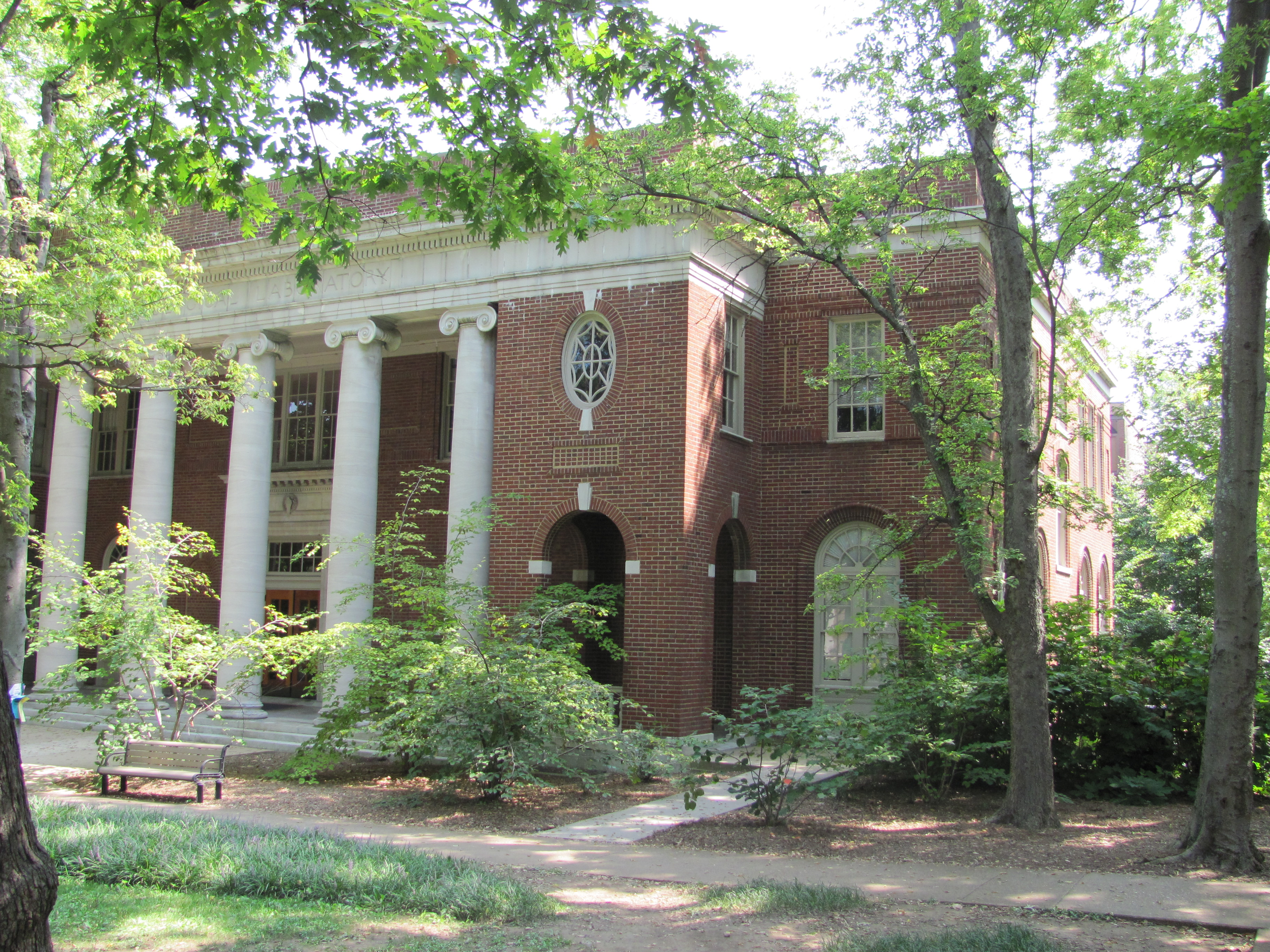 Jesup Psychological Laboratory, Vanderbilt.